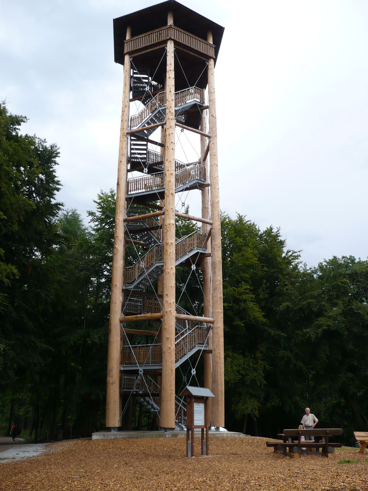 Observation tower Ottoshöhe nearby Melle, Germany